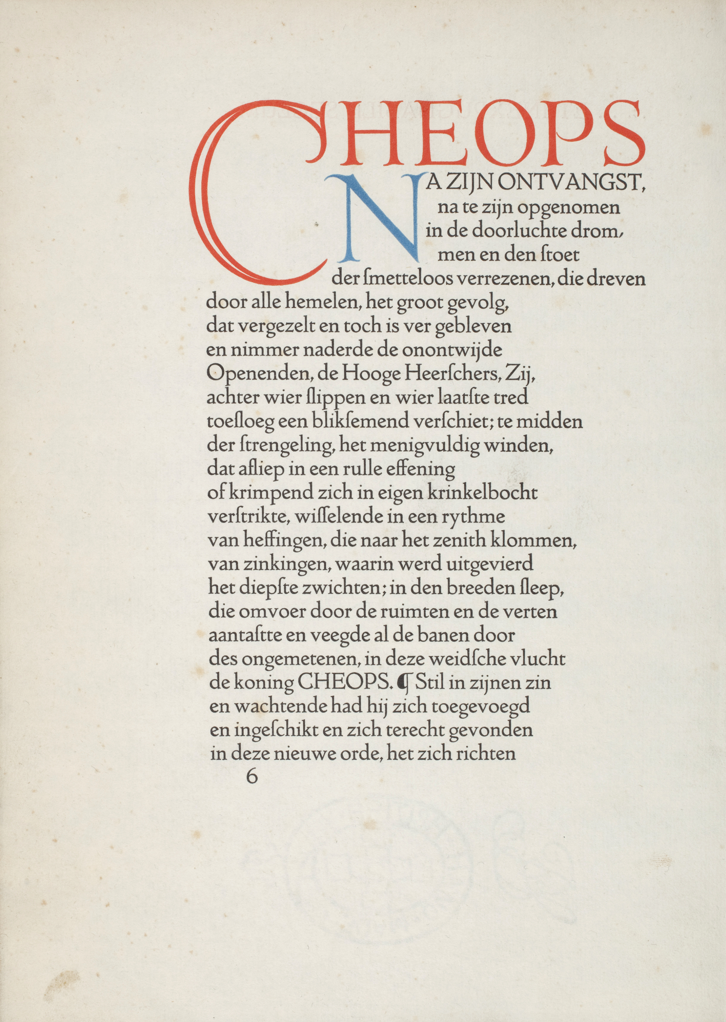 Cheops - poem by J.H. Leopold